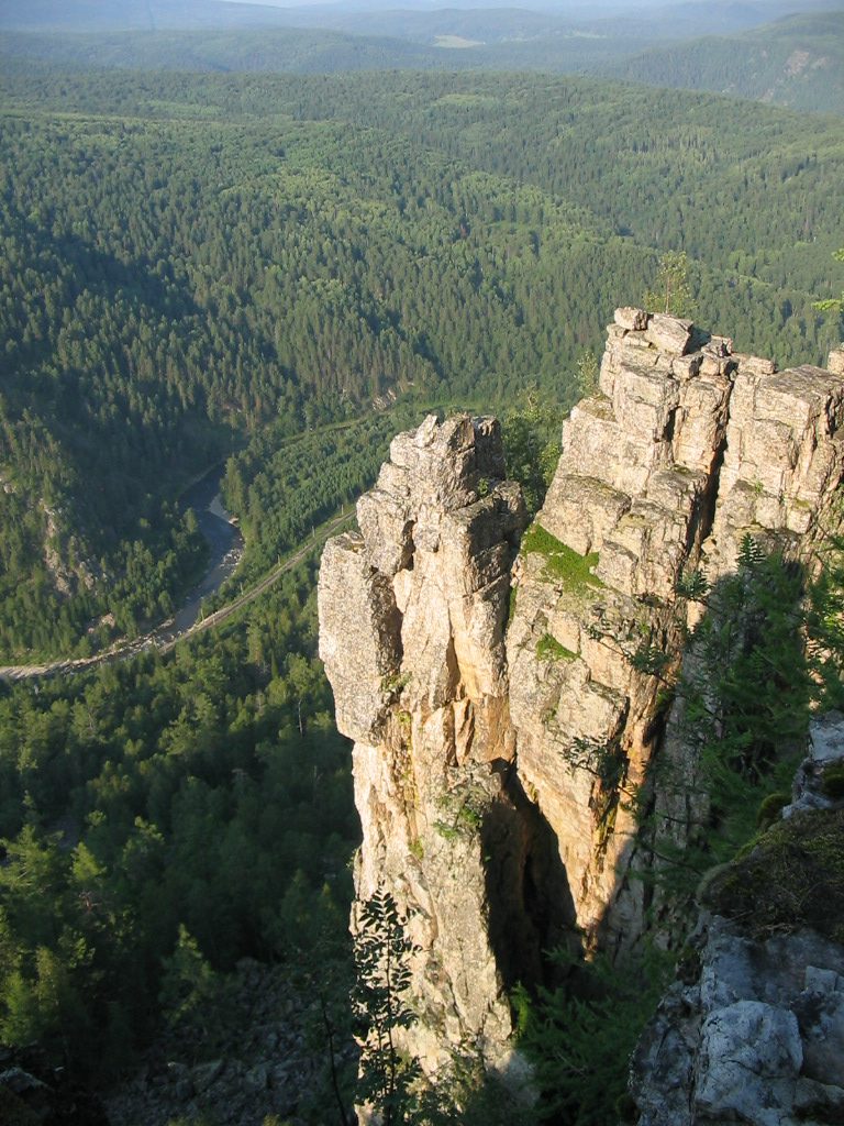 Aygir on Inzer river in Beloretsk region of Bashkortostan of Russian Federation.